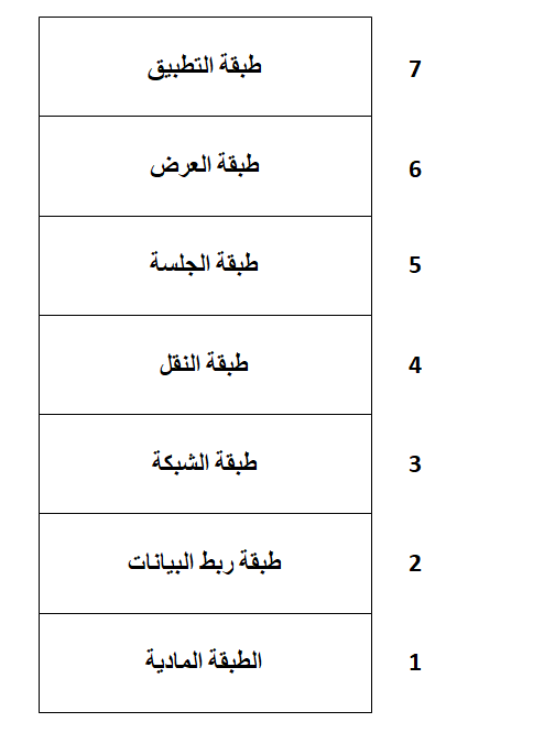 The network's Open Systems Interconnection (OSI) model.